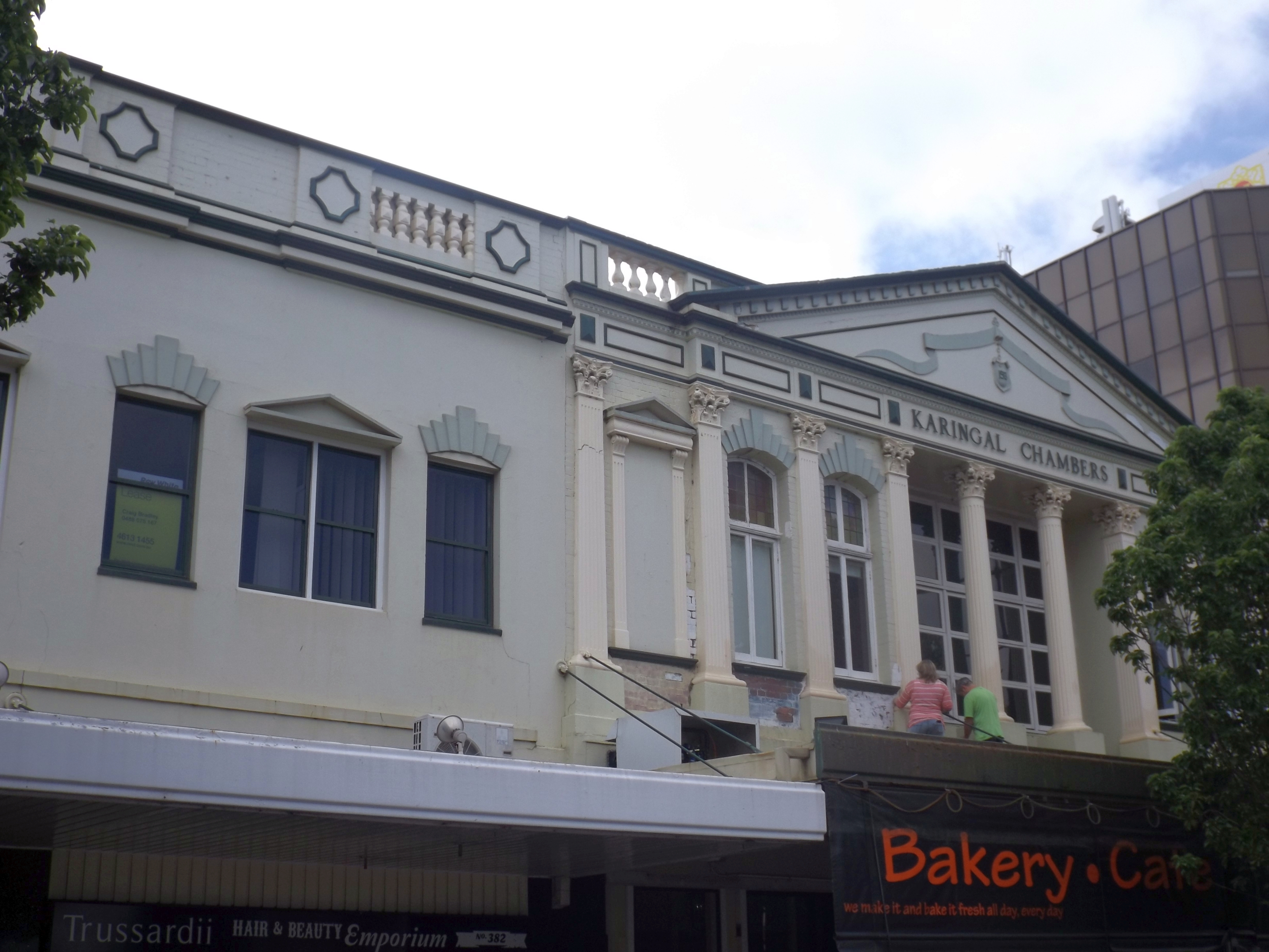 Photo of Karingal Chambers in Toowoomba City, Queensland, Australia.